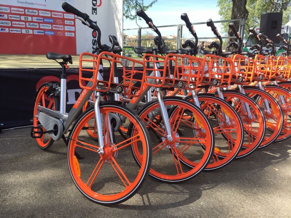 Mobike Lites at Parco delle Cascine, Florence